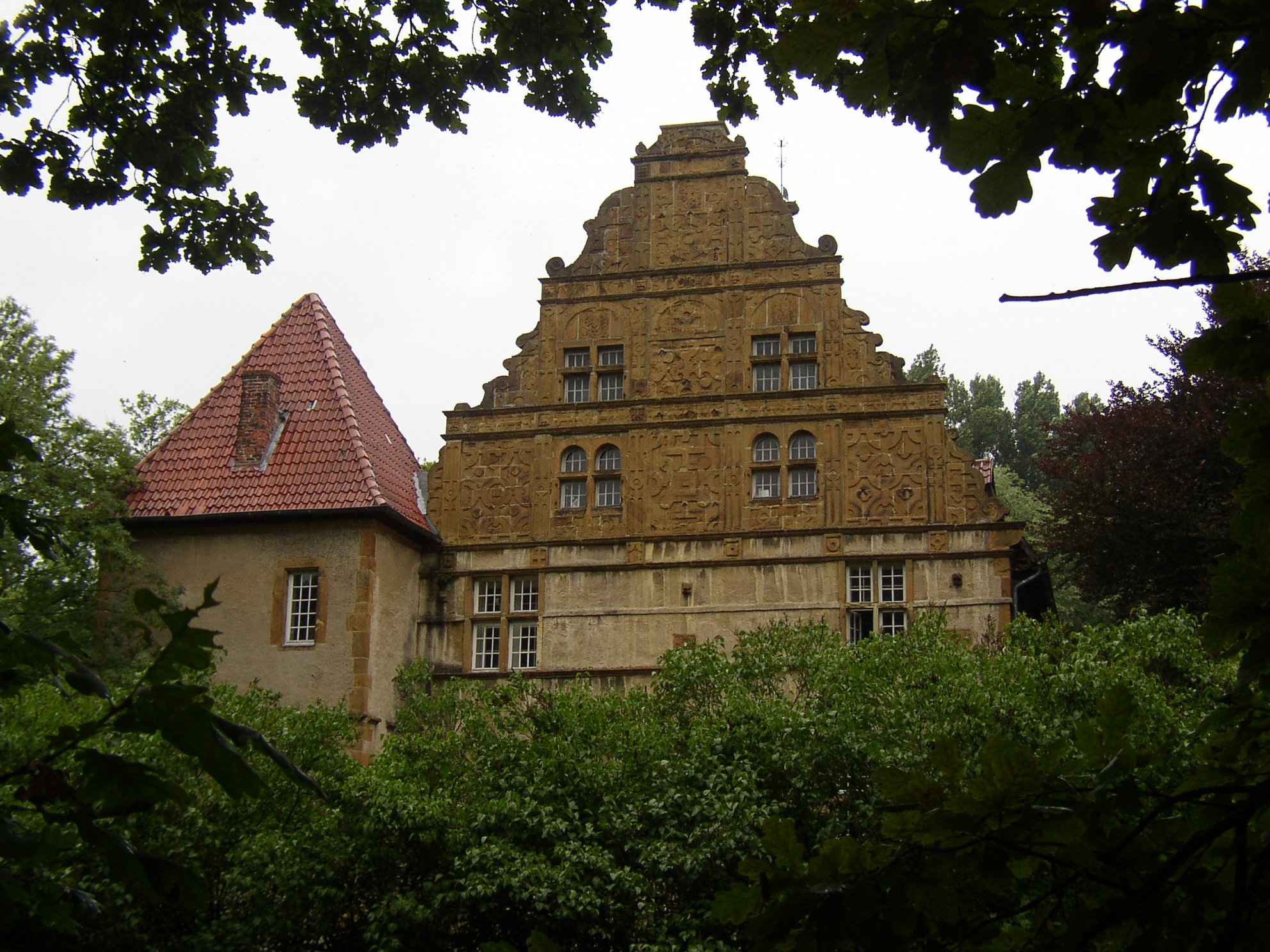 gavel of main building of moated castle Schloss Holtfeld in Borgholzhausen, County of Gütersloh, Germany